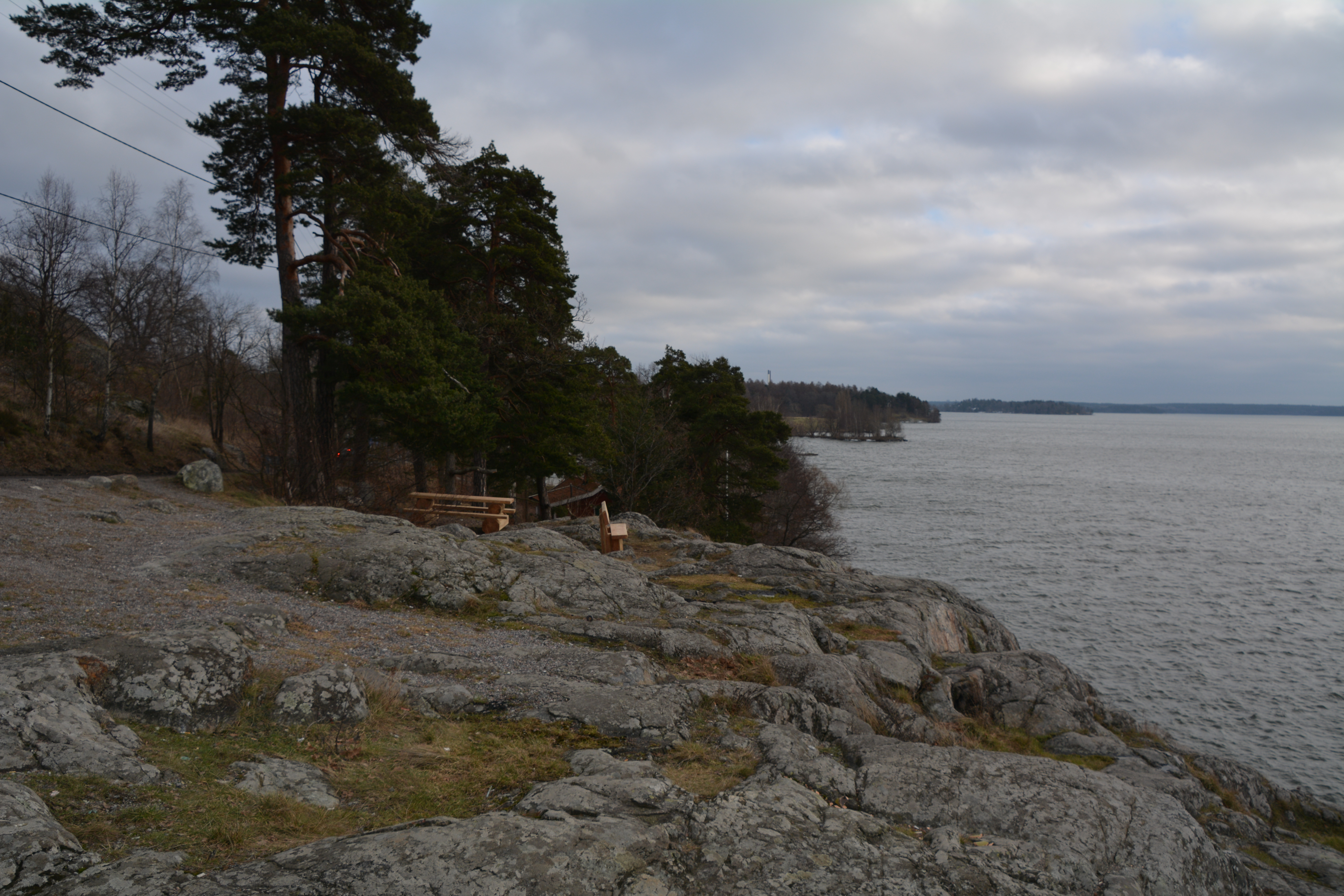 Kyrkhamn protected area, Hässelby, Stockholm, Sweden